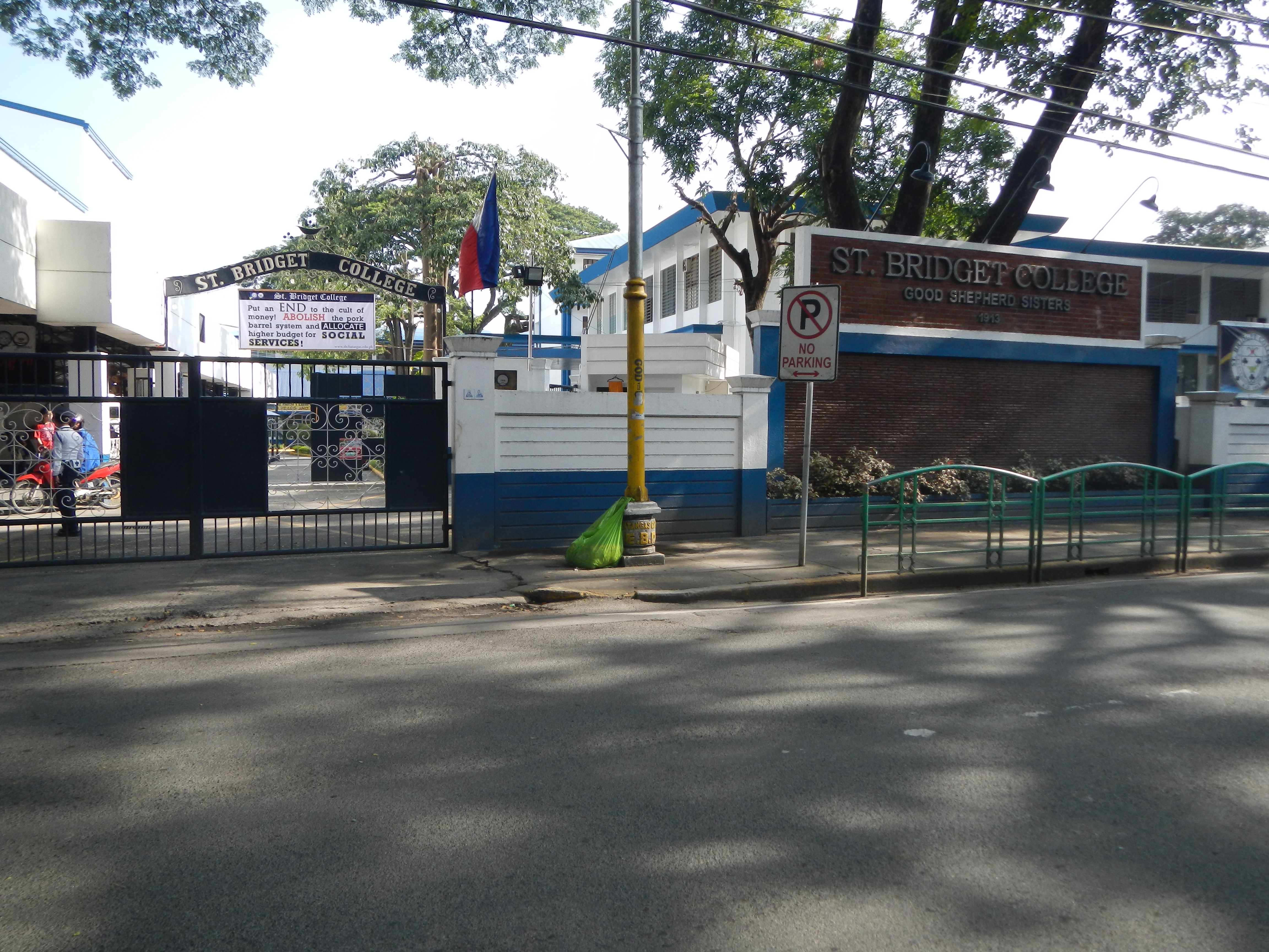 Upload Wizard photos -- (general description of landmarkds, town, church) -Apolinario M. Mabini Legislative building --- Historical Park and Laurel Park - Batangas Provincial Board[1] is the Sangguniang Panlalawigan[2] (provincial legislature) of the Philippine province of Batangas- Presiding Officer Jose Antonio Leviste II, Liberal Party - located in the Apolinario M. Mabini Legislative building, Capitol Site, - at the - Batangas [ Provincial Capitol [3] Coordinates: 13°45'55"N 121°3'50"E Batangas City (the largest and capital city of the Province of Batangas, the "Industrial Port City of Calabarzon", 2010 census, the city has a population of 305,607 people - 1926 Batangas [4] Provincial Capitol [5] Coordinates: 13°45'55"N 121°3'50"E Batangas City (the largest and capital city of the Province of Batangas, the "Industrial Port City of Calabarzon", 2010 census, the city has a population of 305,607 people); 1913 - St. Bridget College [6] (a private Catholic education institution located in M.H. del Pilar Street); Rizal Monument; P. Burgos St., Pasalubong Batangueno; oldest Acacia tree; Basilica Minore of the Infant Jesus and Immaculate Conception of Batangas City - Basilica of Immaculada Conception built from 1851-1857, its façade and interior early Rennaissance architecture - February 13, 1946, by a decree of Pope Pious XII, elevated to the "Basilica Minor" of the Infant Jesus and Immaculada Concepcion , the Batangas Church Museum.